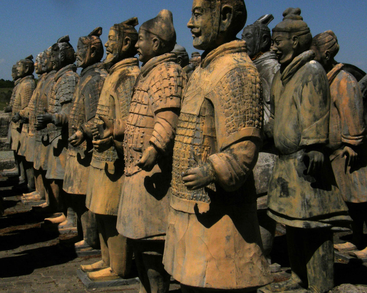 Terra Cotta Army at the Forbidden Gardens in Katy, Texas.